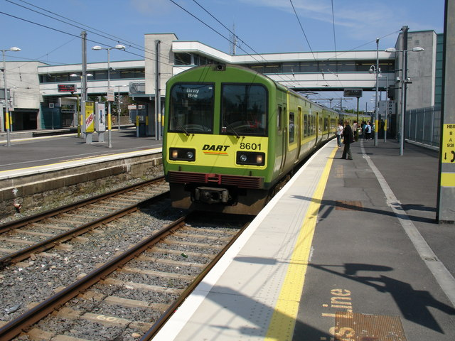 Howth Junction railway station Original description: Howth Junction A Bray-bound DART (Dublin Area Rapid Transport) train arrives from Howth. The tracks on the platforms to the left serve the main line north to Portmarnock and onwards to the border and Belfast.